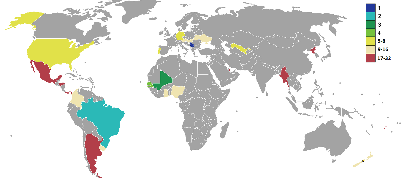 Map of tournament results. Māori: Mahere o te hua whakataetae.